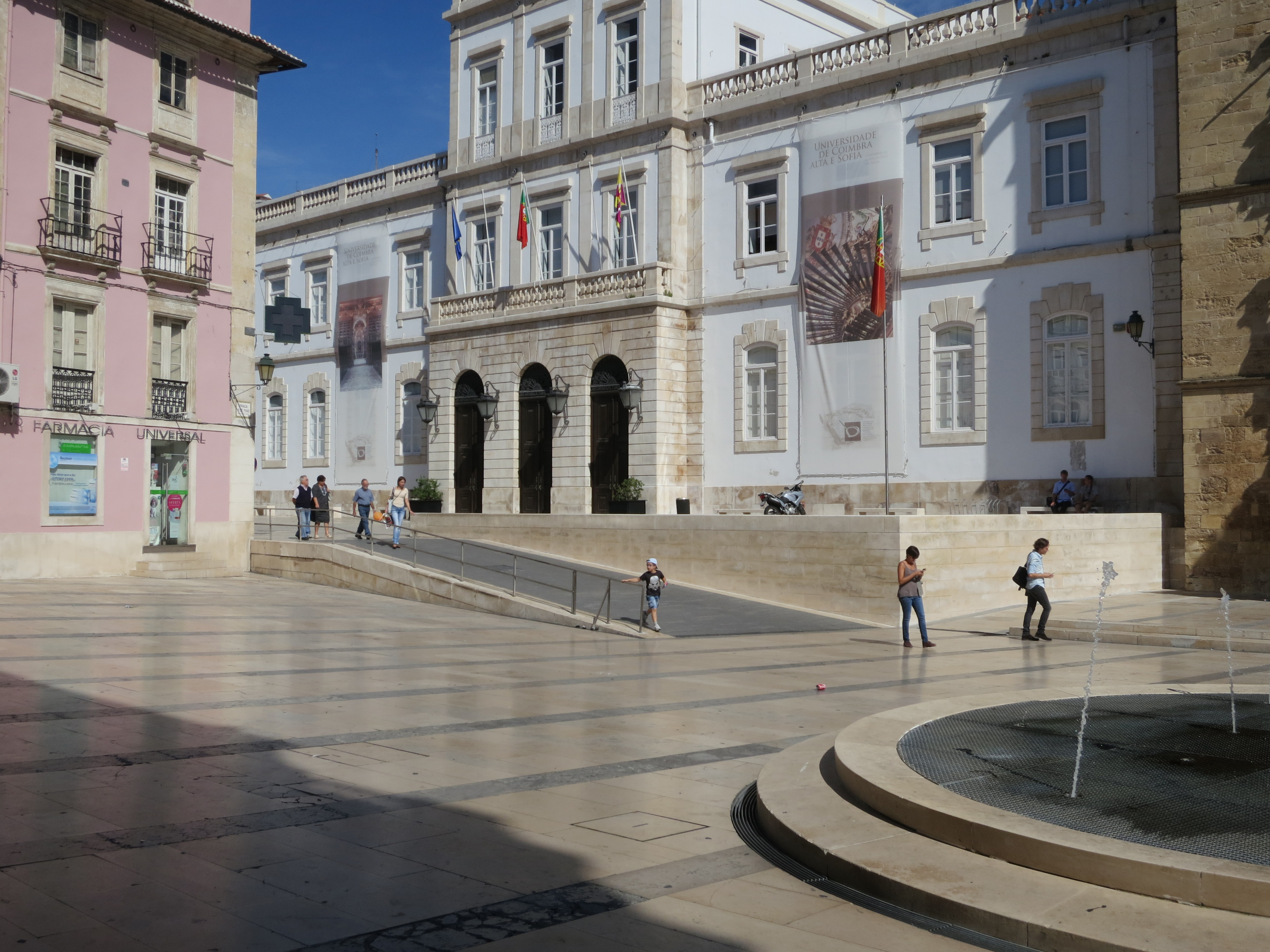 Praça 8 de Maio in Coimbra, Portugal, after the remodelation by Portuguese architect Fernando Távora, a project of c. 2003. The Plaza is located in front of the famous Mosteiro de Santa Cruz, the white building on the photo is the Câmera Municipal de Coimbra